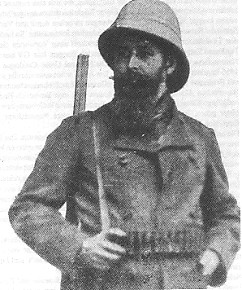 Portrait of Ferdinand Emmerich